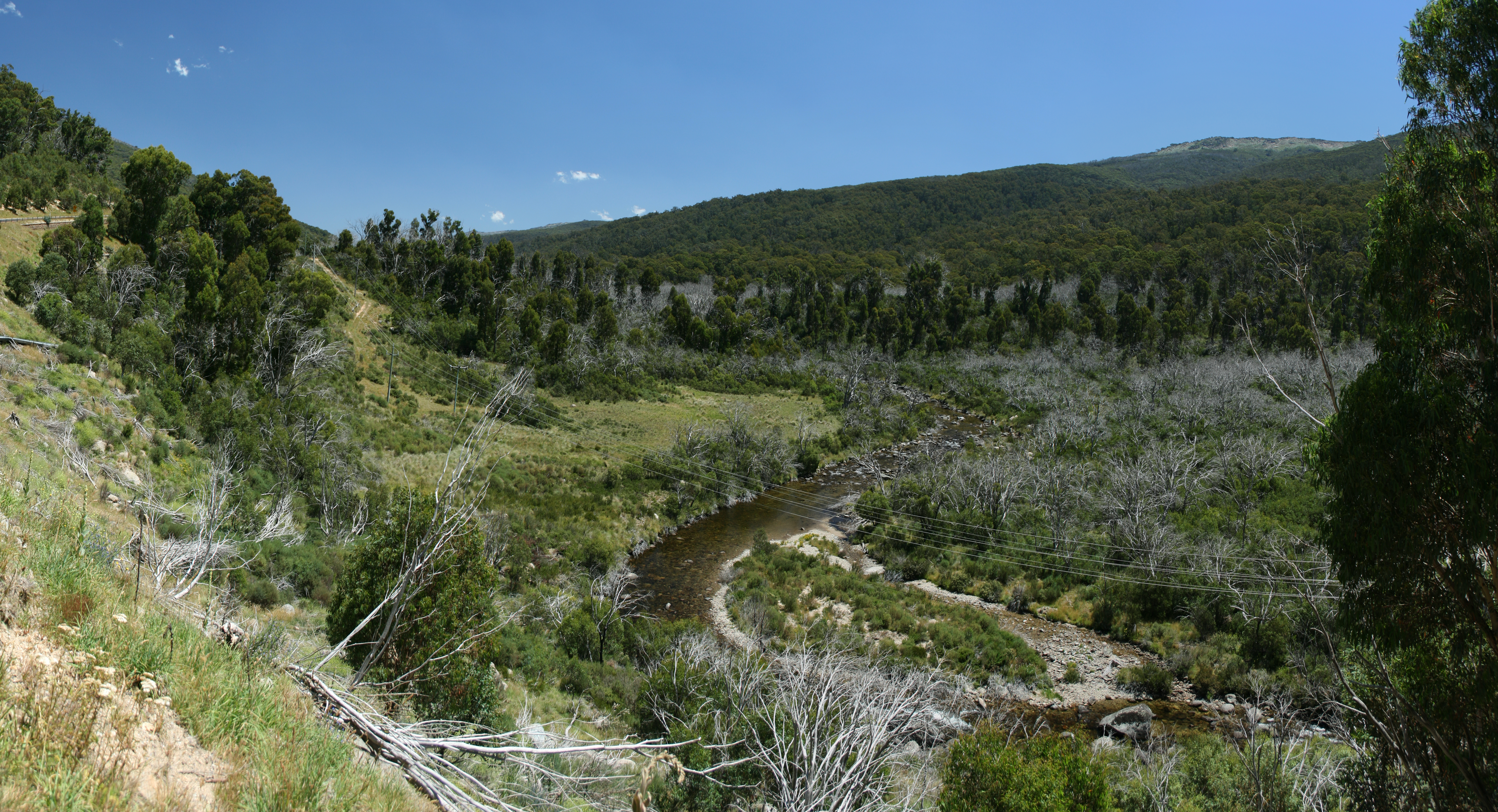 Panorama looking upstream along the Thredbo River in summer from the Alpine Way.